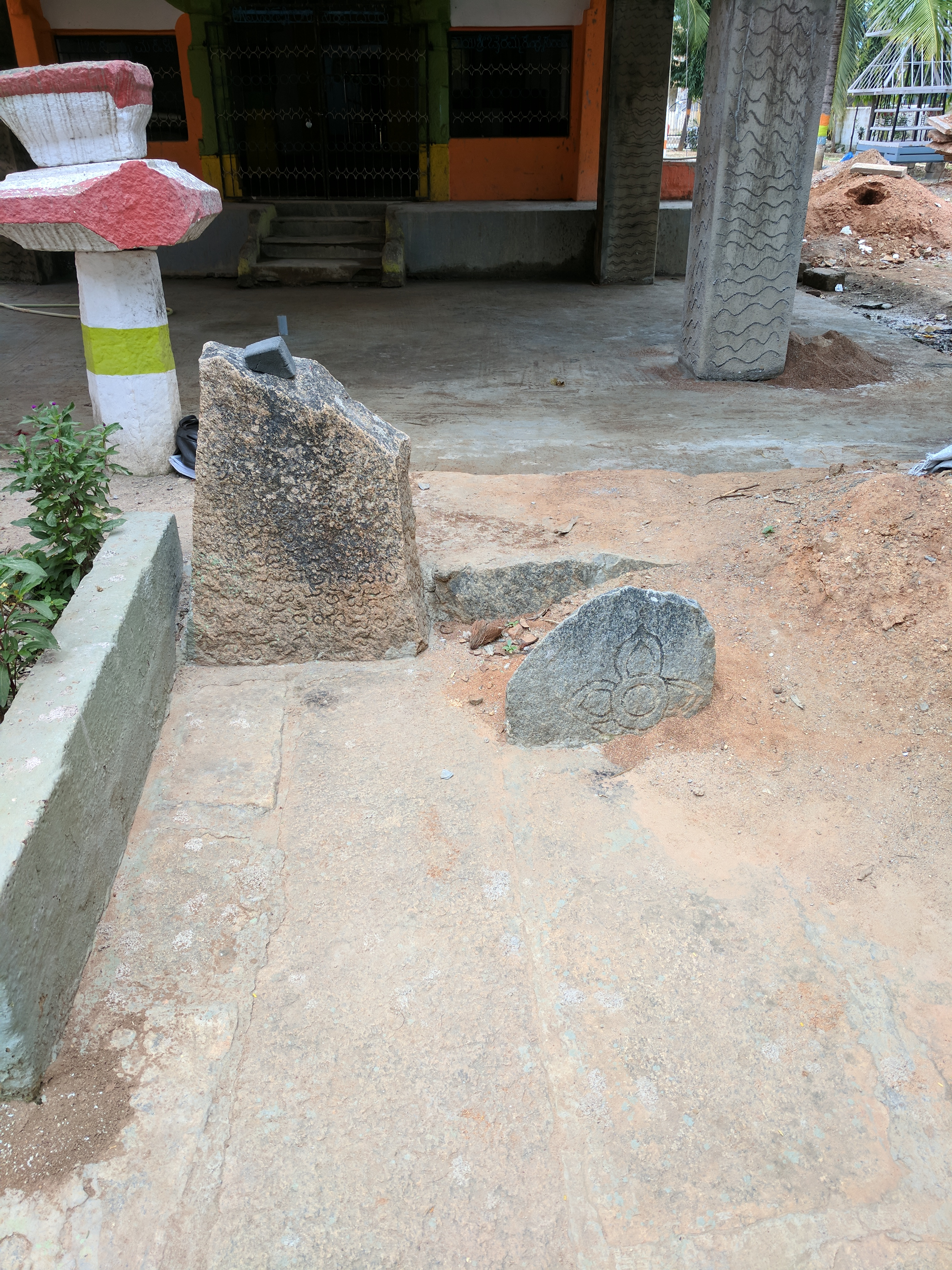 inscriptionstonesofbangalore